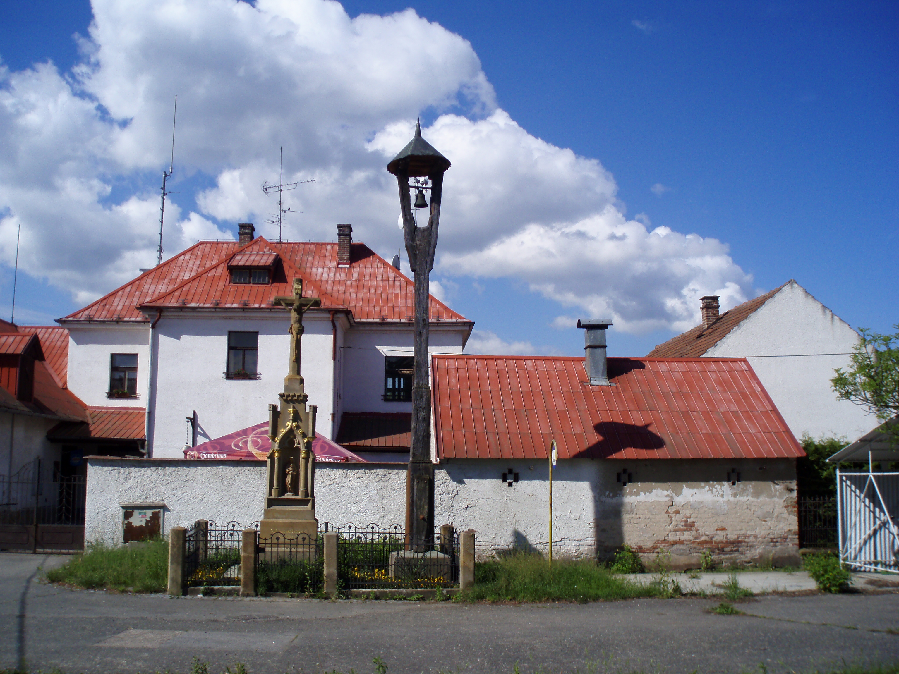 Belfry in Svinary (Hradec Králové)